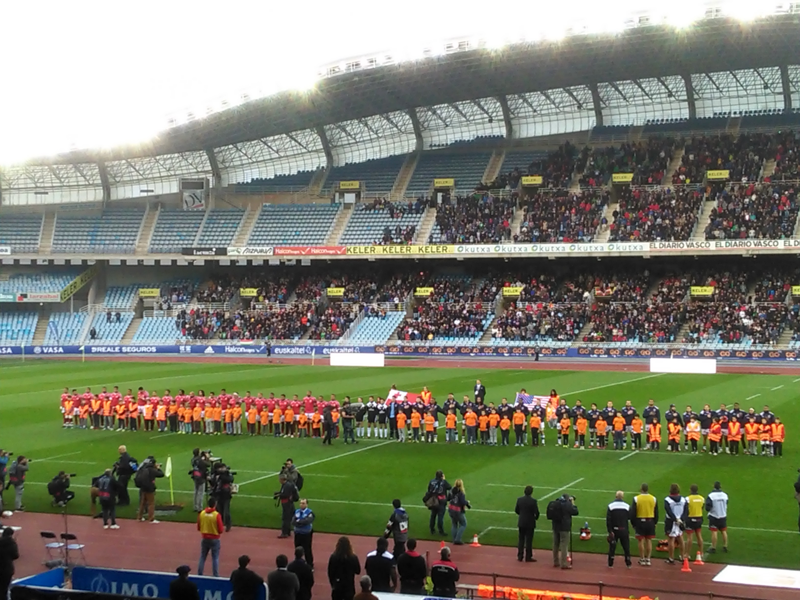 Elkano Cup (Donostia) Tonga 20-17 USA 2016-11-19